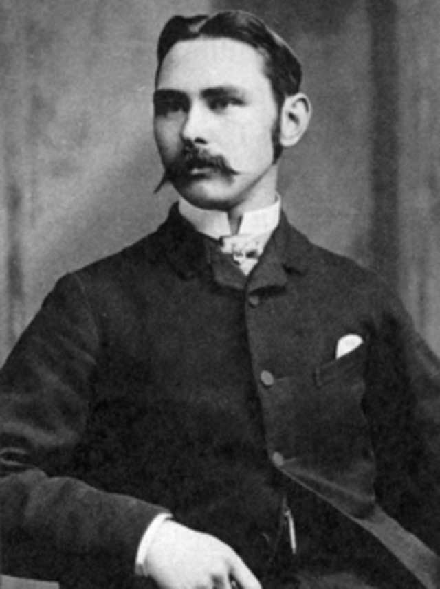 Portrait of Douglas Hyde Image courtesy of UCC.